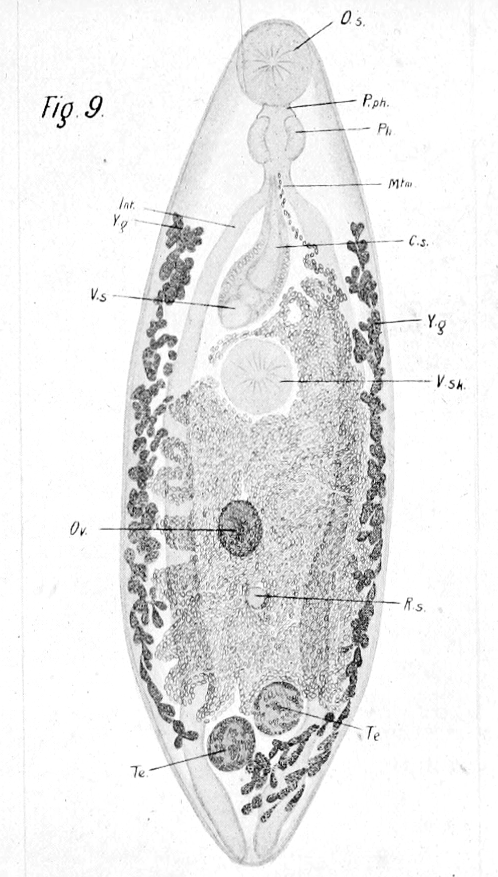 « Brachysaccus anartius » = Dolichosaccus anartius